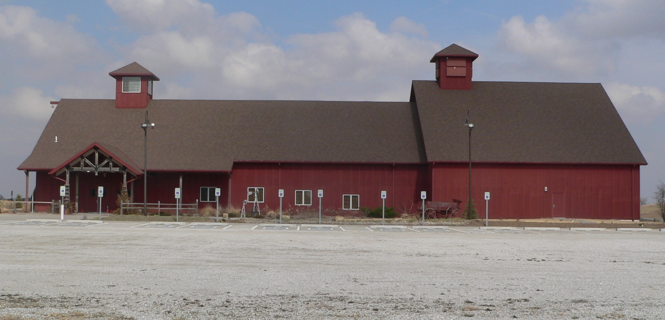 Lofte Community Theatre, located at 15841 Manley Road, east of Manley, Nebraska; seen from the southwest.